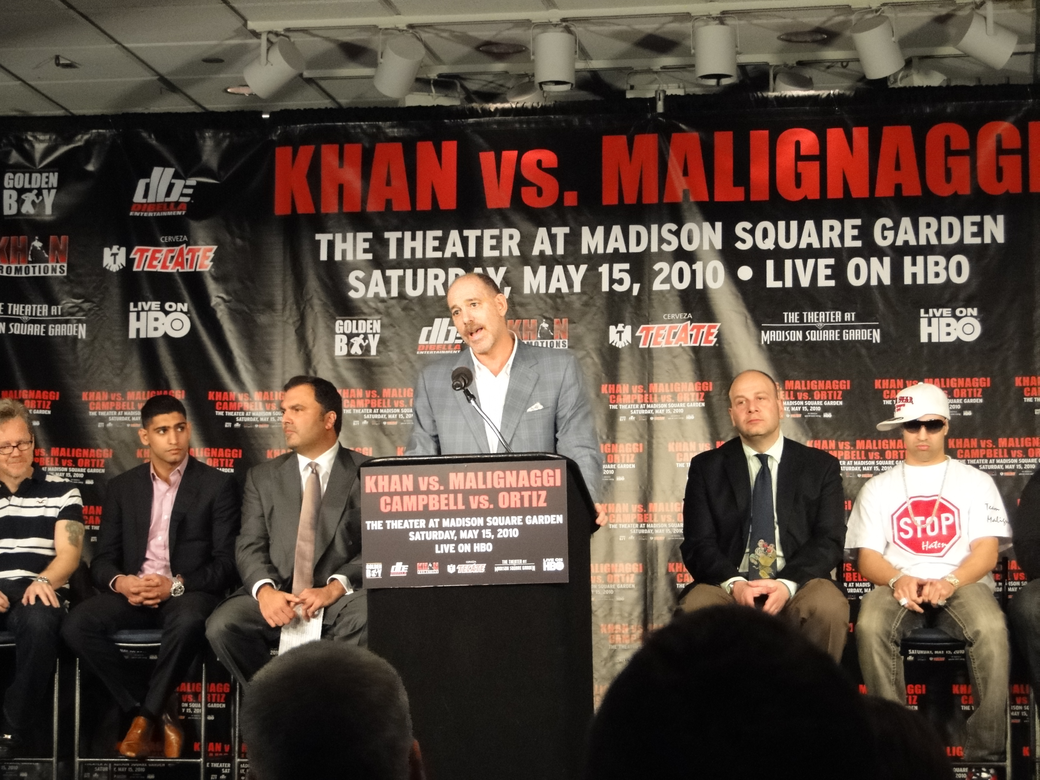 Press conference for the fight between Amir Khan and Paulie Malignaggi.